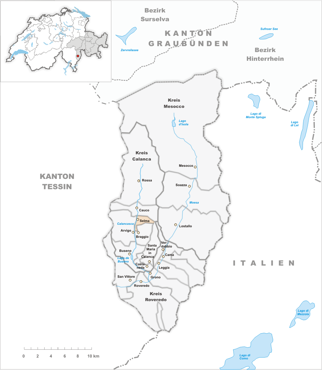 Municipality Selma